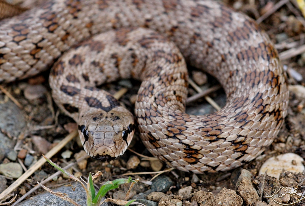 Transcaucasian Rat SnakeTürkçe: Kafkas Yılanı